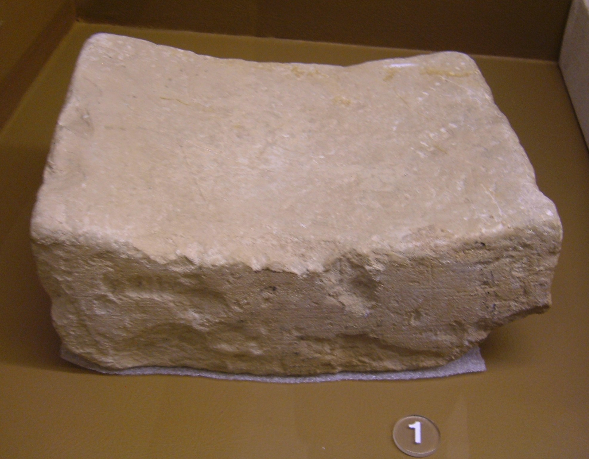 Limestone seat found in the courtyard of a house from Amarna (Dynasty 18) on display at the Rosicrucian Egyptian Museum in San Jose, California. RC 961